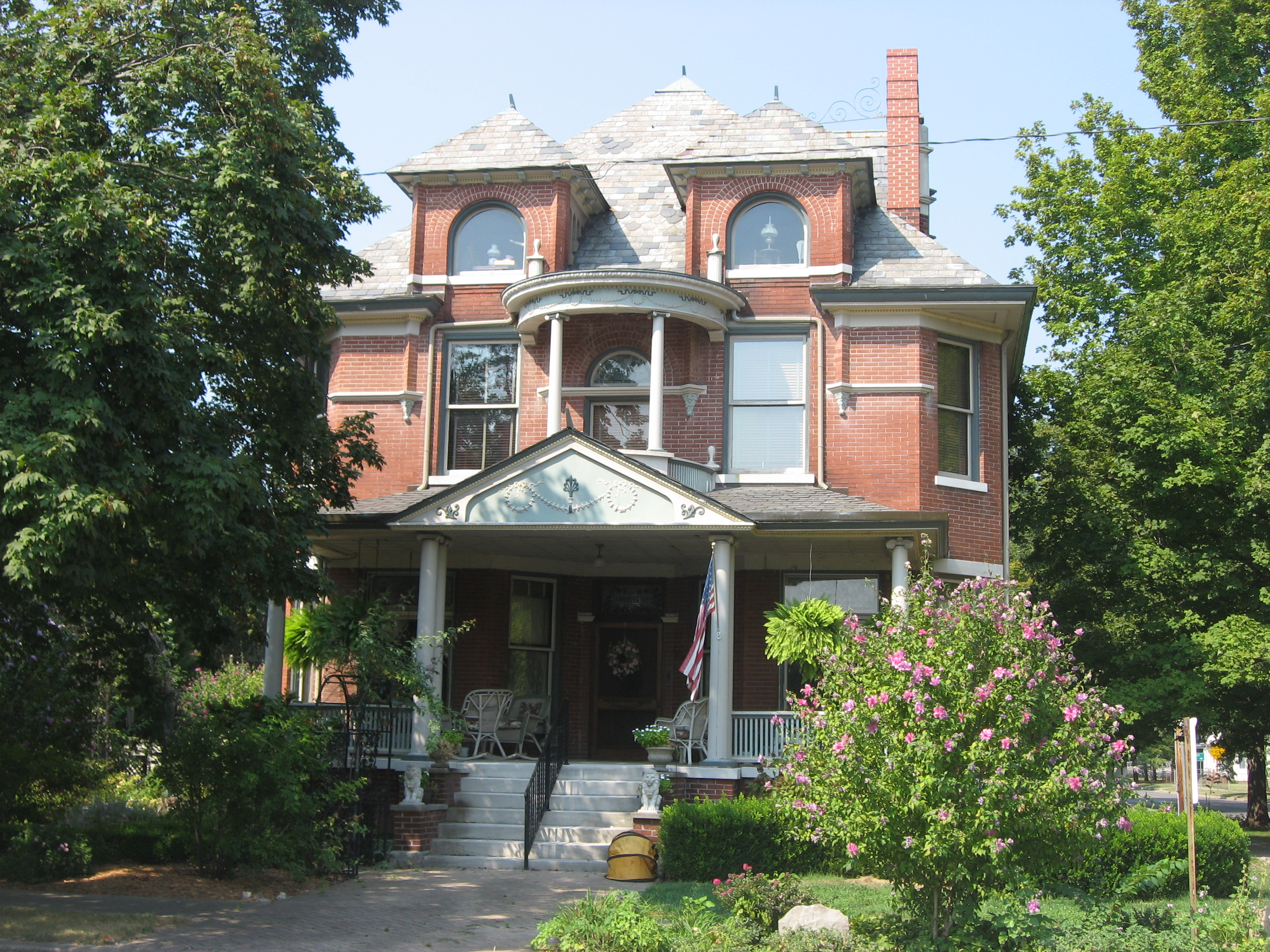 Front of the Amon Clarence Thomas House, located at 503 West Street in New Harmony, Indiana, United States. Built in 1899, it is listed on the National Register of Historic Places.